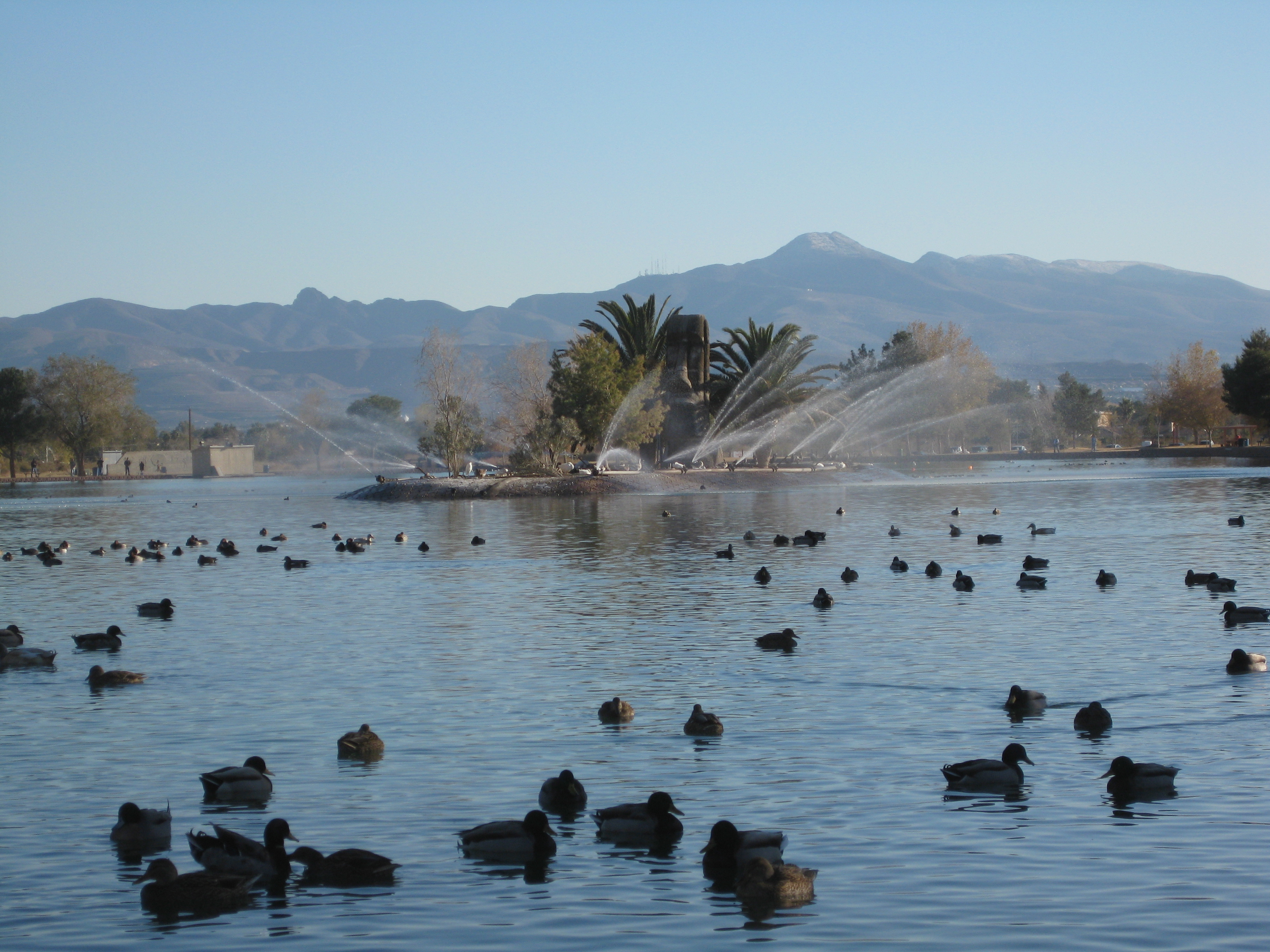 Sunset Park Lake